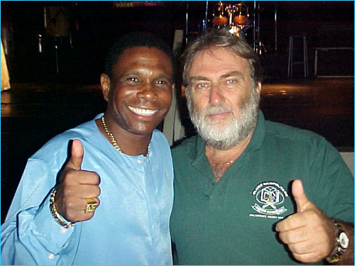 Neguinho da Beija-flor (Nilópolis samba school singer) and Farid Abraão David current Nilópolis city Mayor (2007)